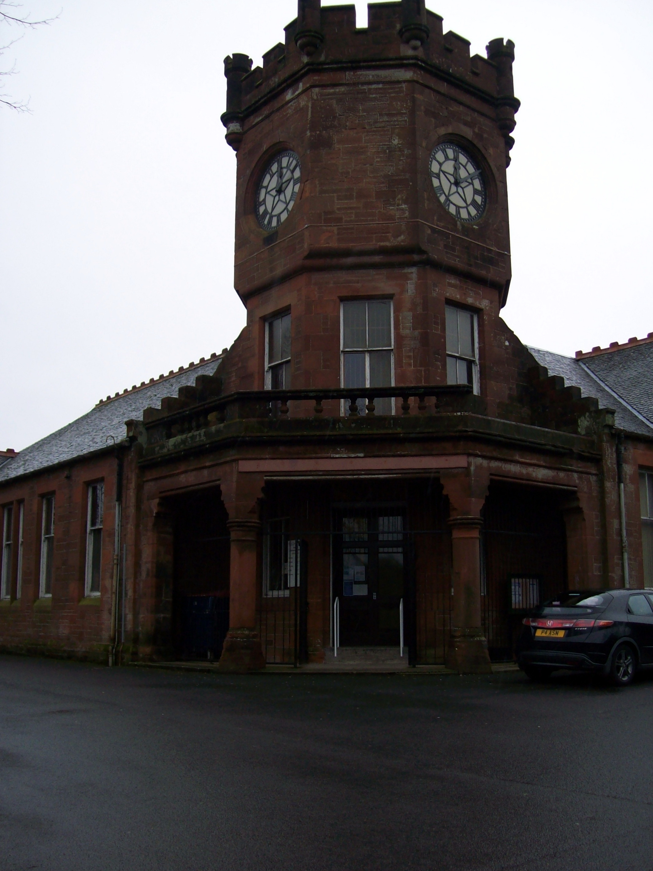 How would you describe this? Its striking impressive and grotesque all in one, I've done a brief search and have not found anything to tell us what the architect had in mind, the clock-tower is obviously large enough to have a library function but unless the roof is glass the absence of windows on the uppermost floor puzzling, but at least the locals can always tell the time if down this side of the river.